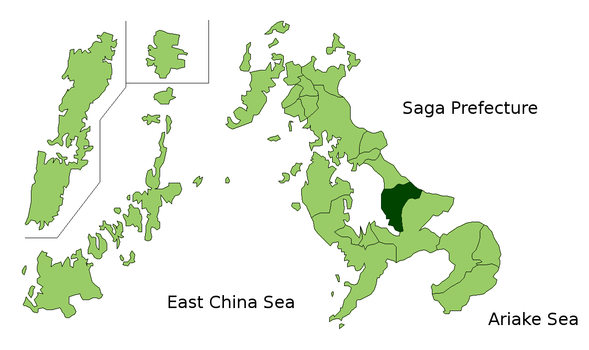 Map of Nagasaki Prefecture highlighting Omura city. Borders of map as of July, 2006. (blank map used from [1]) See also Image:NagasakiMapCurrent.png.